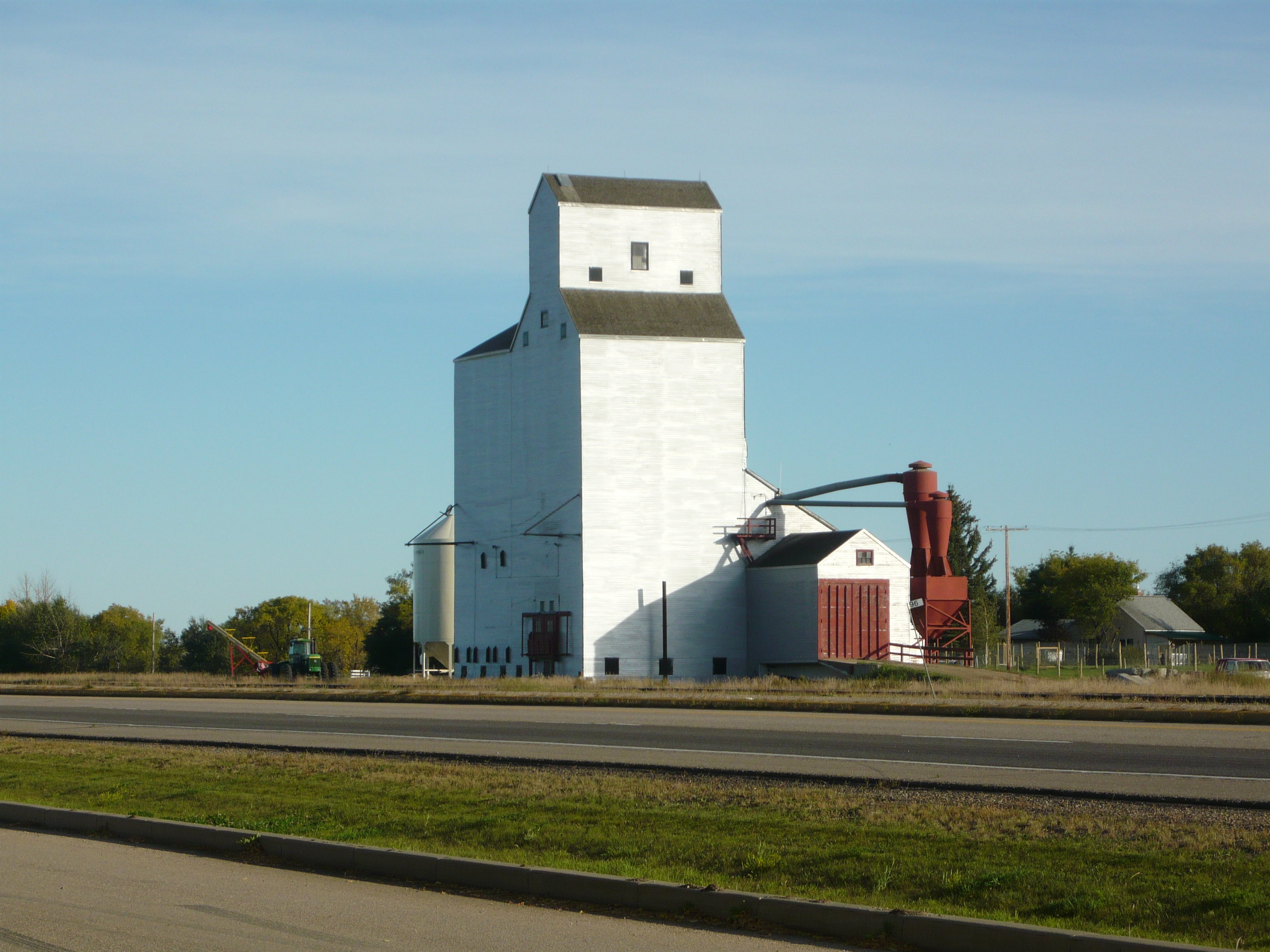 Grain elevator in Borden, Saskatchewan, Canada. Photo taken from intersection of Shepard Street and Railway Avenue, looking southeastward along Highway 16.